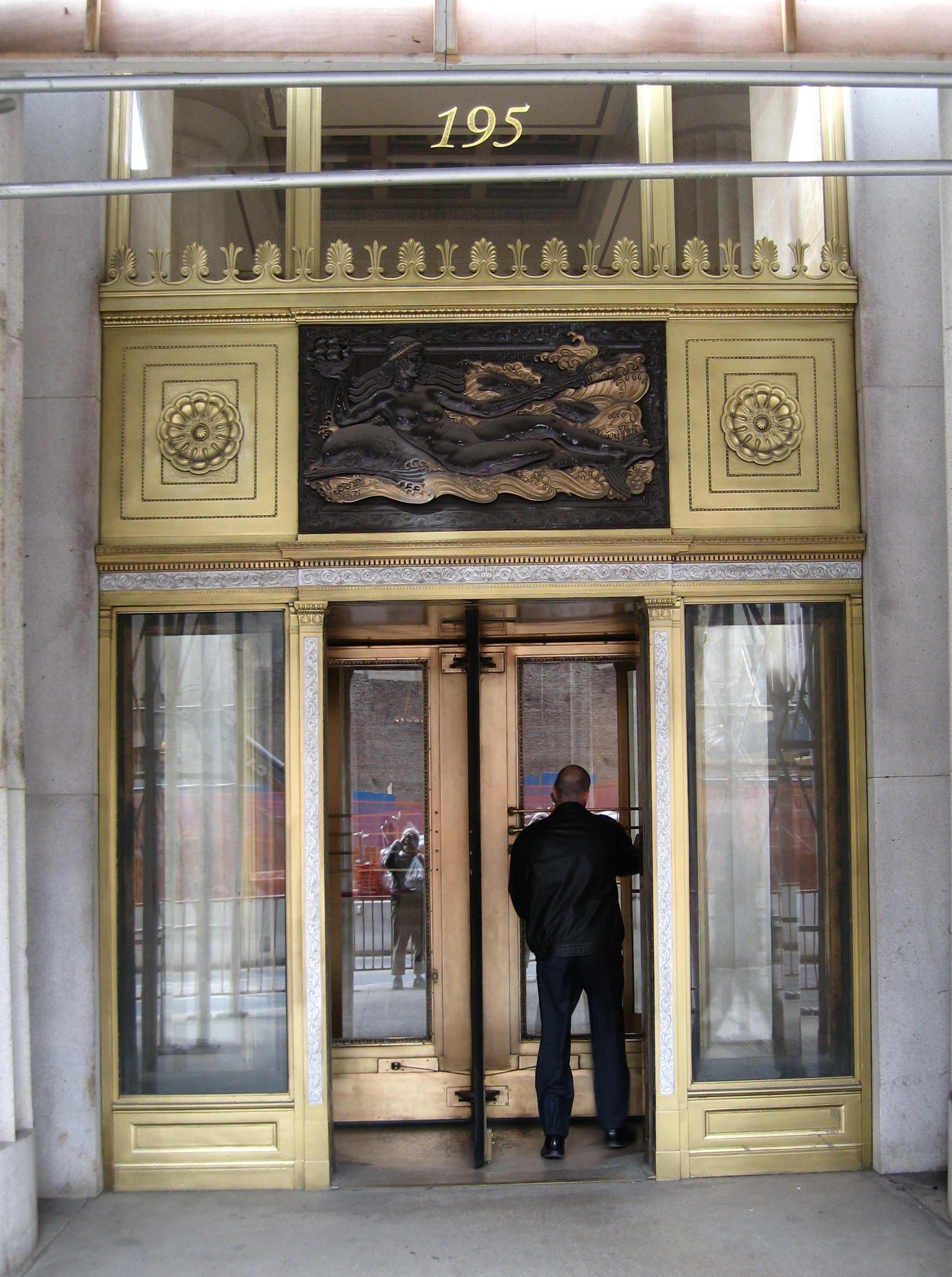 195 Broadway, HQ of Bell System until 1986, with Wikiphotographer reflected in glass.